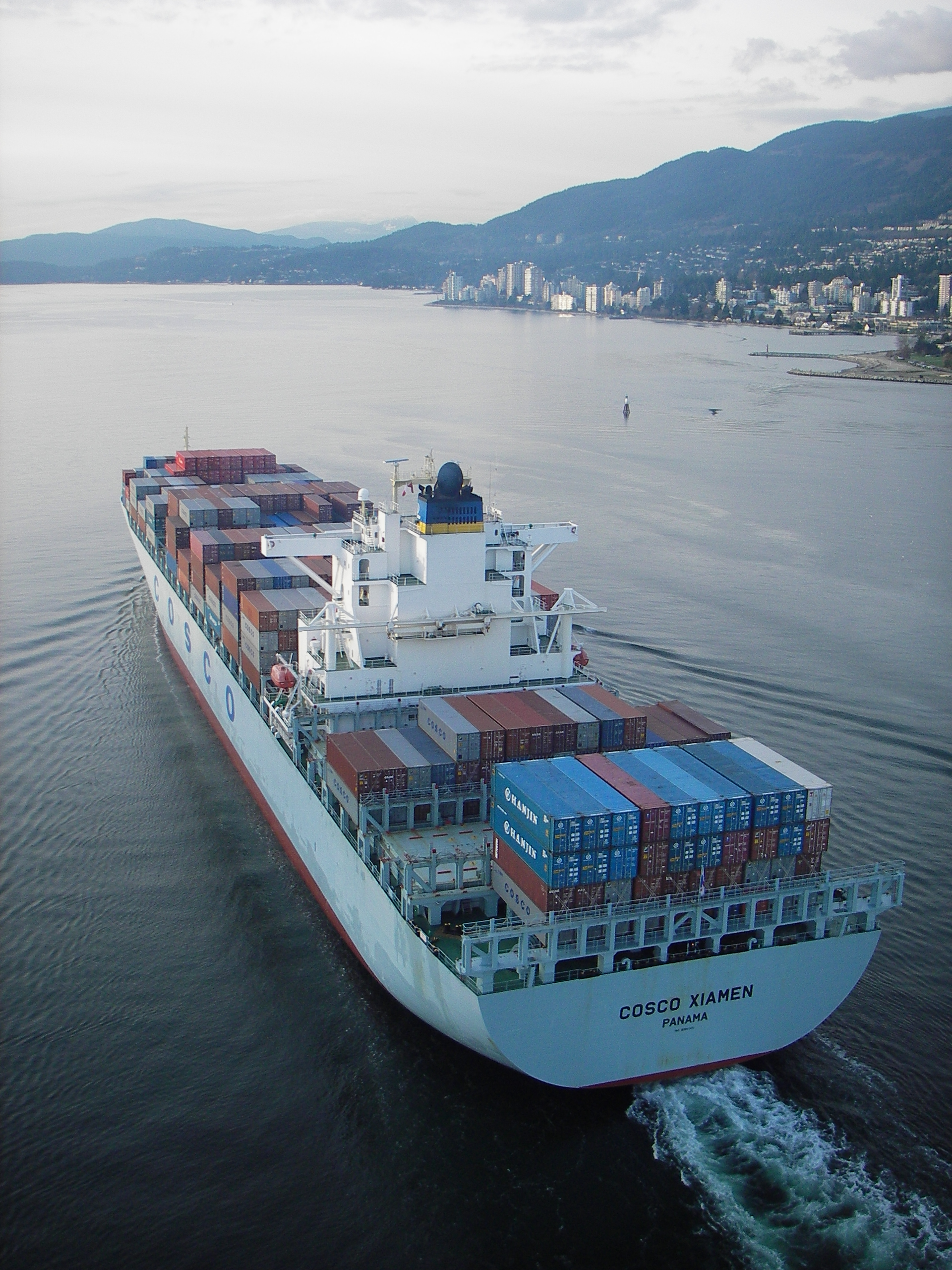 Container ship Cosco Xiamen exiting Burrard Inlet (Vancouver's harbour) and probably westbound to distant Asian markets. IMO Number: 9300300 MMSI Number: 357447000 Callsign: H9QK Length: 279 m Beam: 40 m